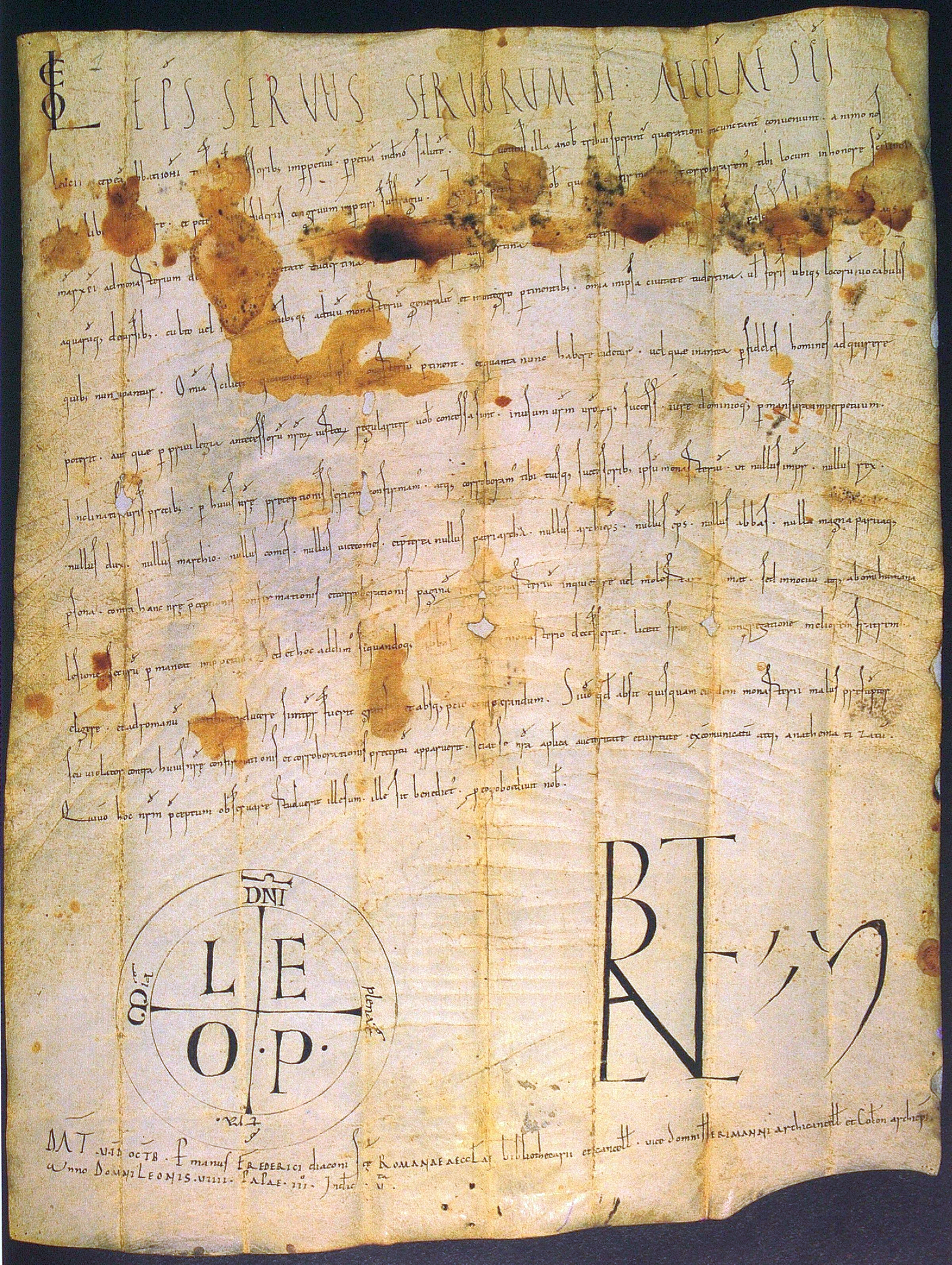 A charter of Pope Leo IX. Vatican City, Archivio Segreto Vaticano, Instrumenta Tudertina 1.